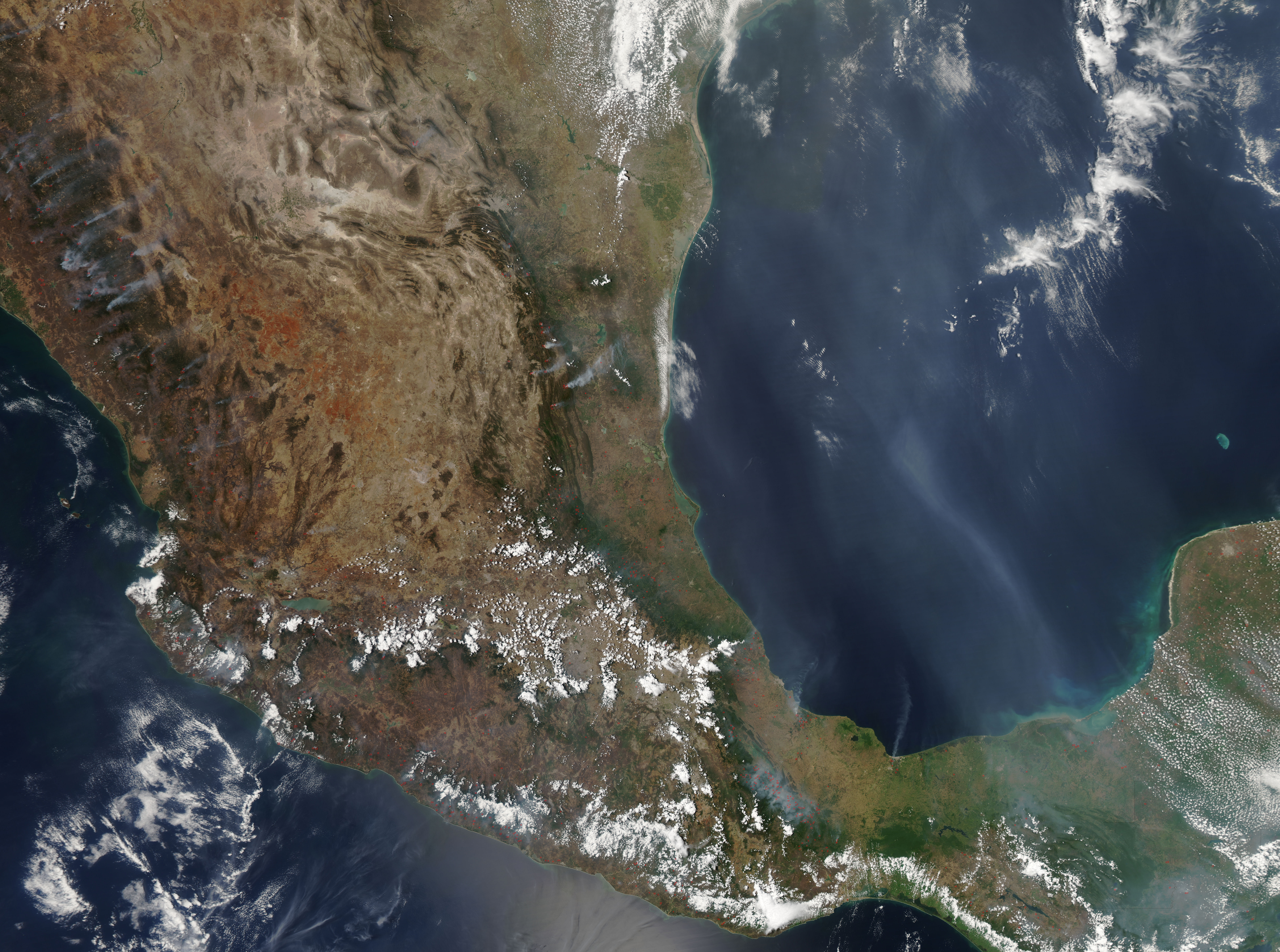 Fires, marked in red, burning throughout Mexico, casting a smoky haze from the Pacific Ocean to the Gulf of Mexico. The widespread fires shown here are evidence of the extreme fire season 2011 turned out to be in Mexico. The widespread nature of the fires in this image suggests that people deliberately started many of them.